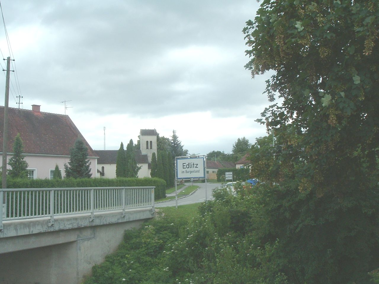 Edlitz (Abdalóc), Burgenland